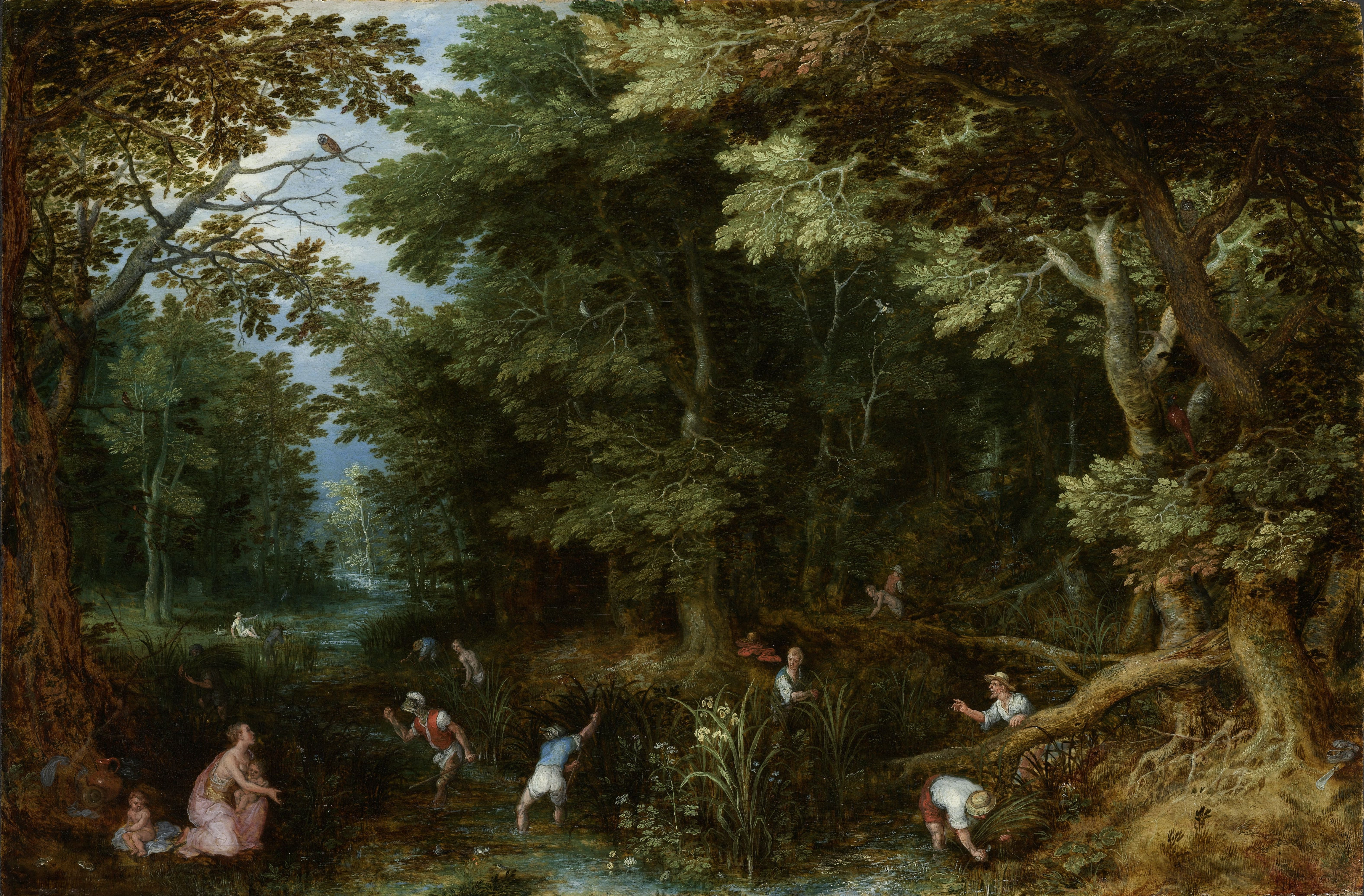 A view of a forest with Latona kneeling down to the left with her children Apollo and Diana. The Lycian peasants are working in and around a small stream. Because they are trying to prevent Latona to drink the water by making it undrinkable, one by one they are turned into frogs.